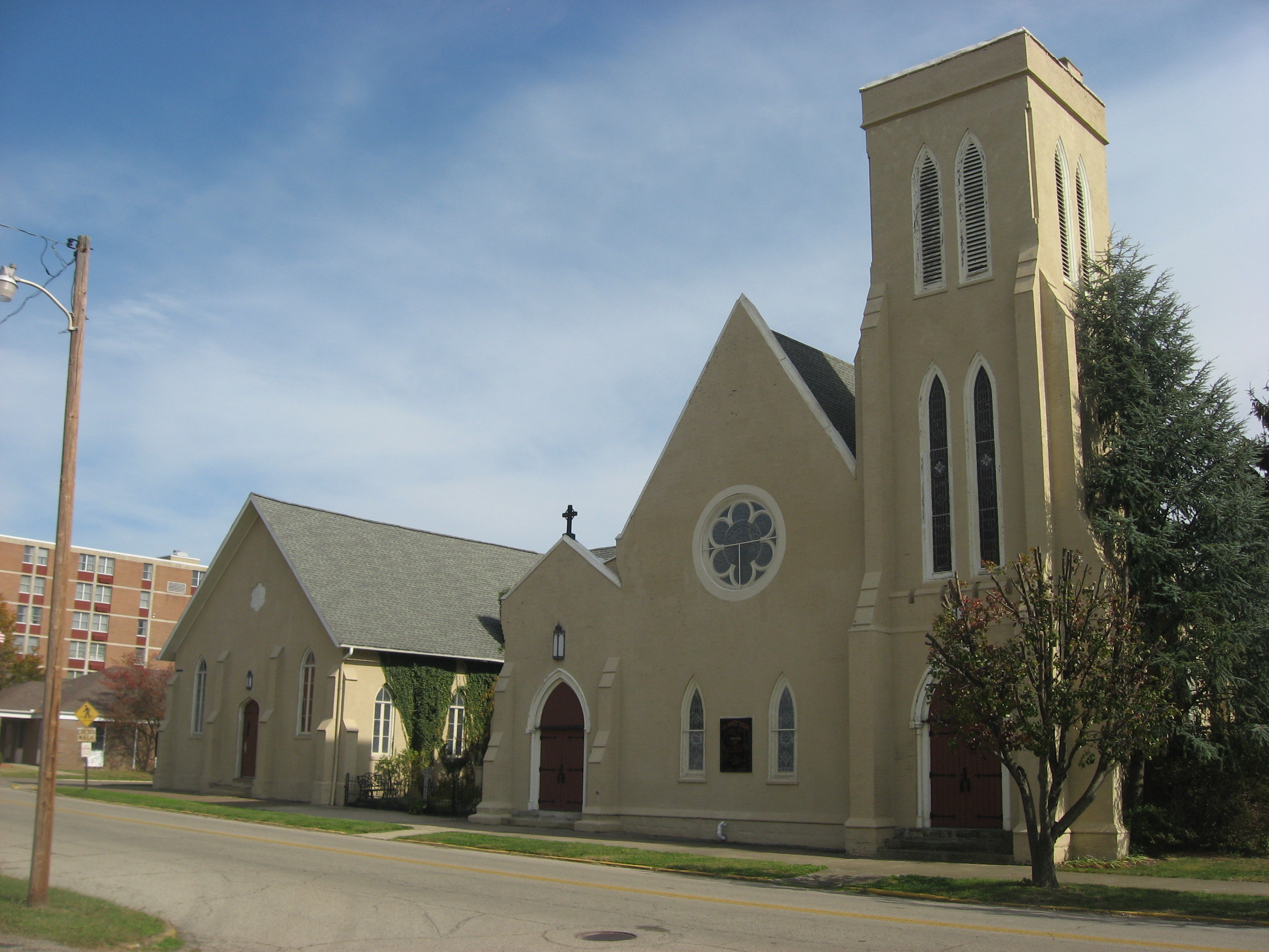 Front of All Saints Episcopal Church, located at 610 Fourth Street in Portsmouth, Ohio, United States. Built in 1833 (left portion) and 1851 (right portion), it is listed on the National Register of Historic Places.